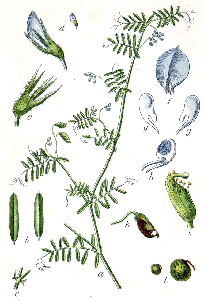 Vicia hirsuta (L.) Gray Original Caption Behaarte Linse, Vicia hirsuta